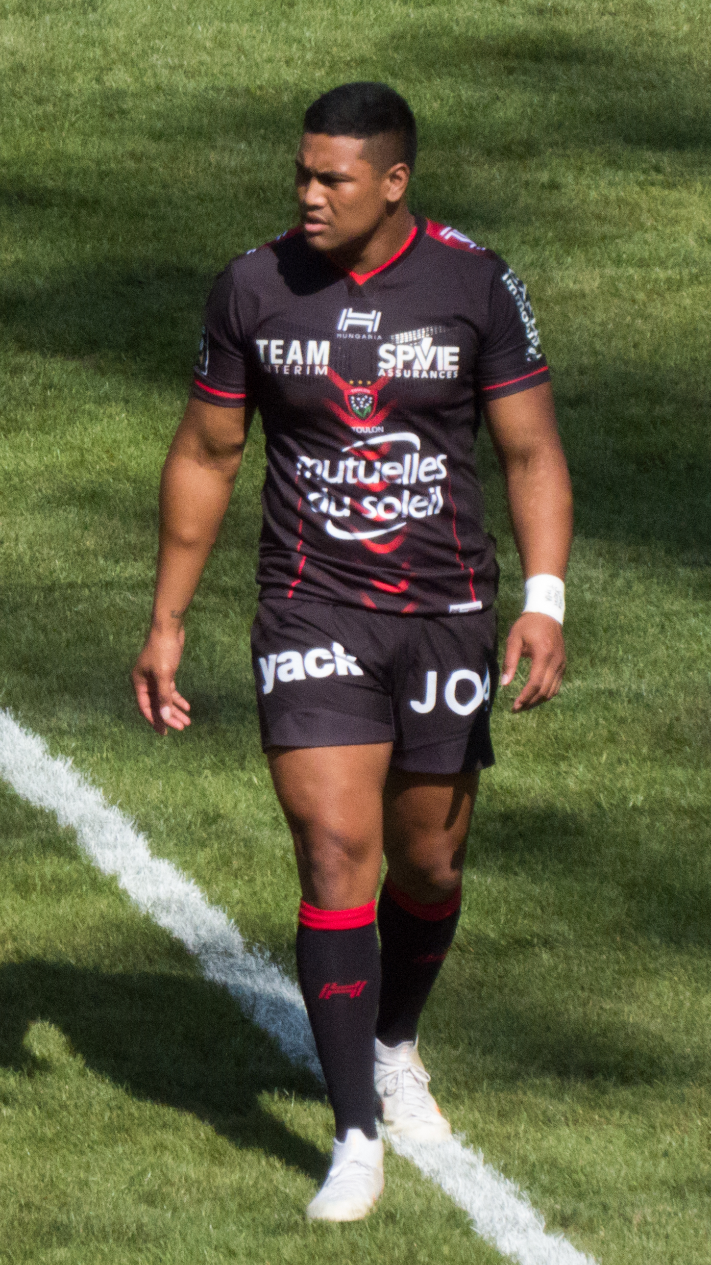 2018–19 Top 14 season — 1 September 2018, Stade du Hameau. Match between: Section Paloise — RC Toulonnais